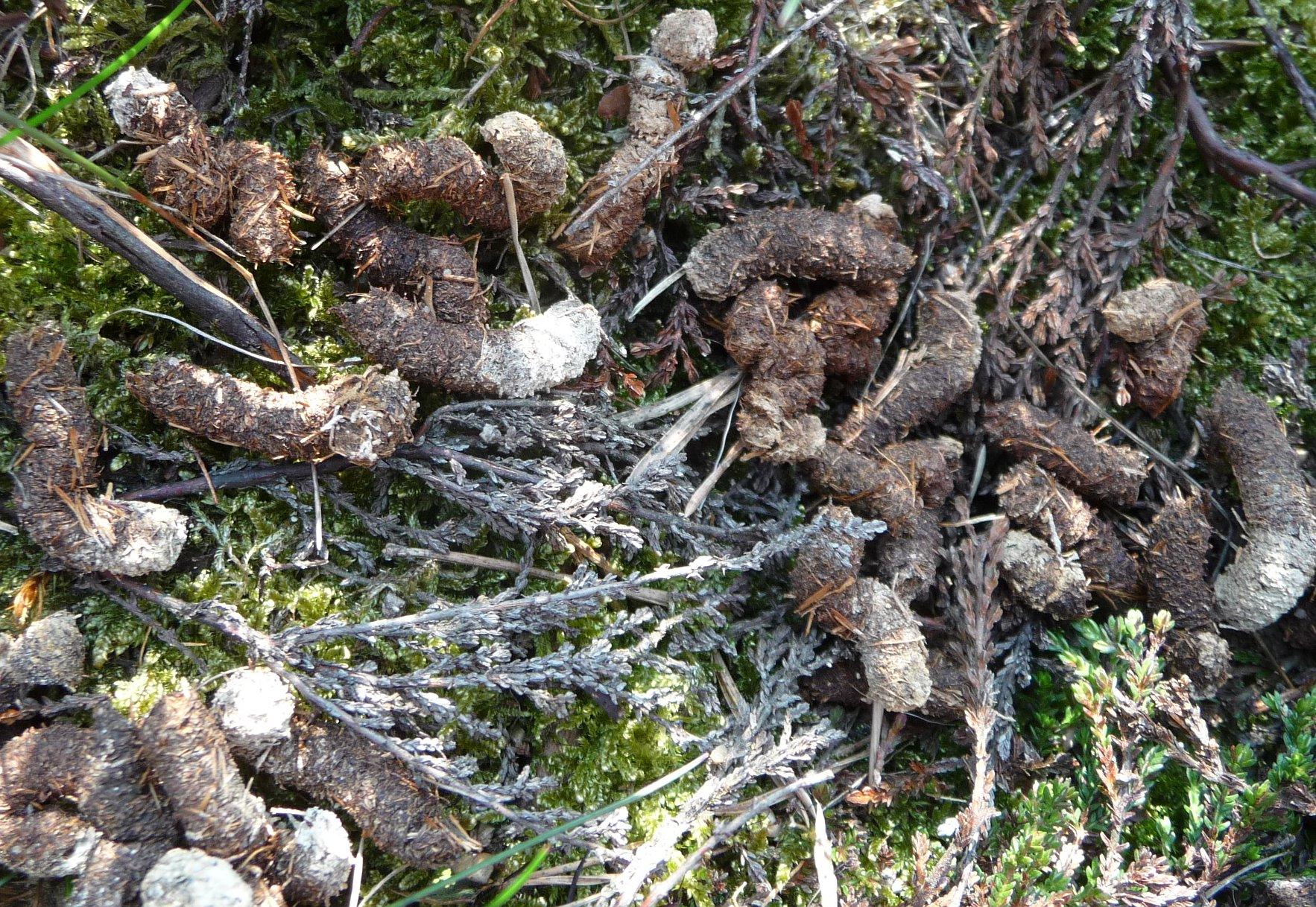 Black grouse (Lyrurus tetrix) droppings